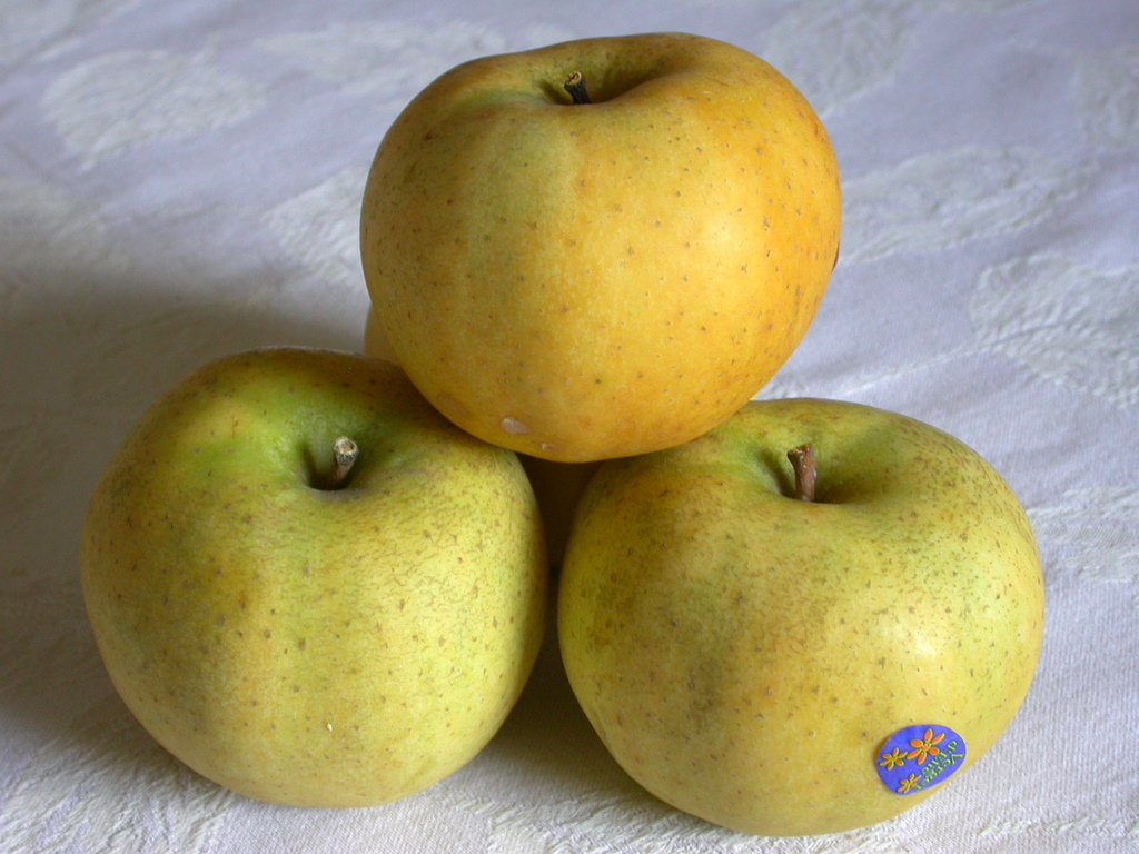 pomme chantecler belchard - French Apple